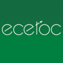 Logo of the European Centre for Ecotoxicology and Toxicology of Chemicals (ECETOC)